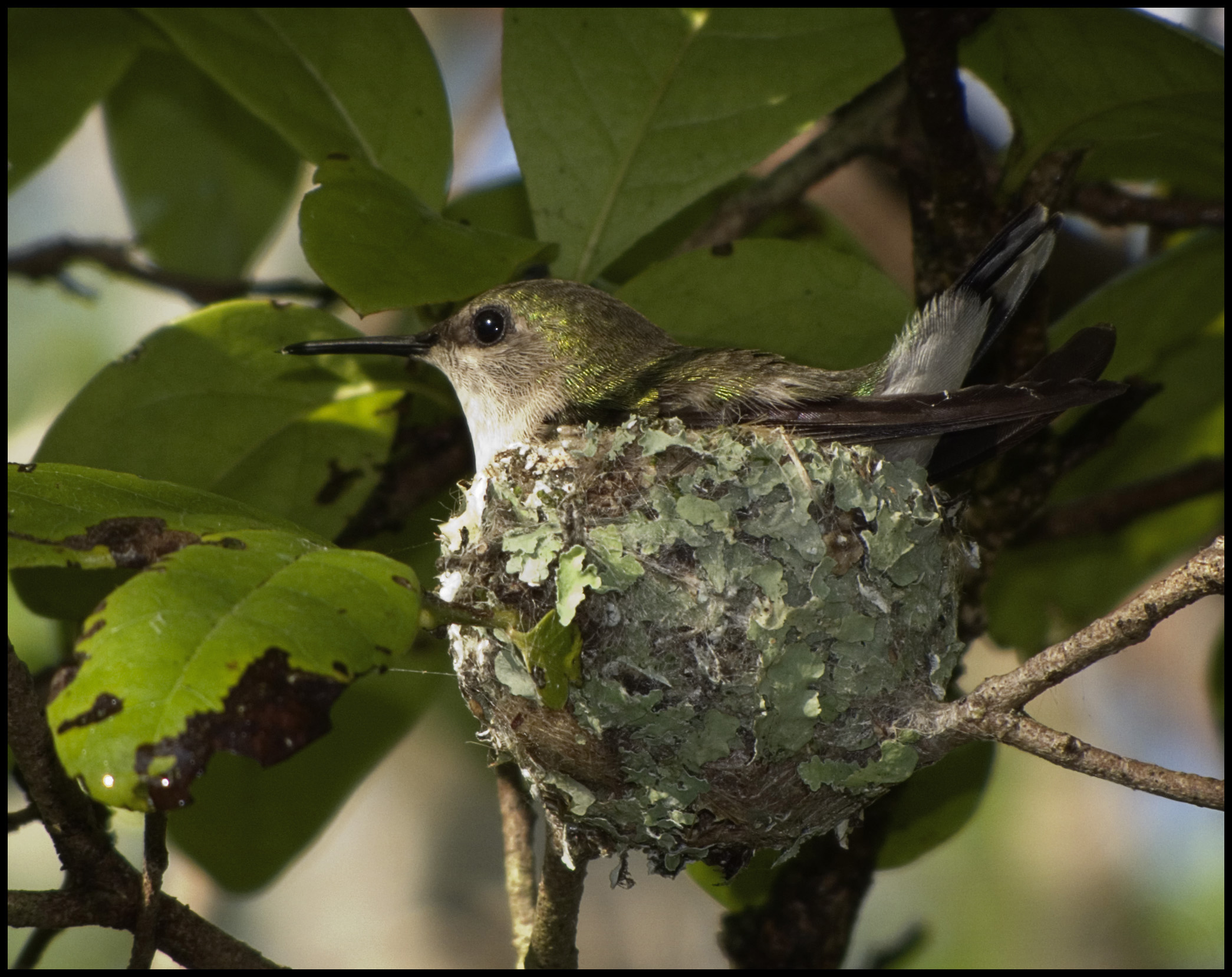 A Female Vervain Hummingbird sitting in her nest